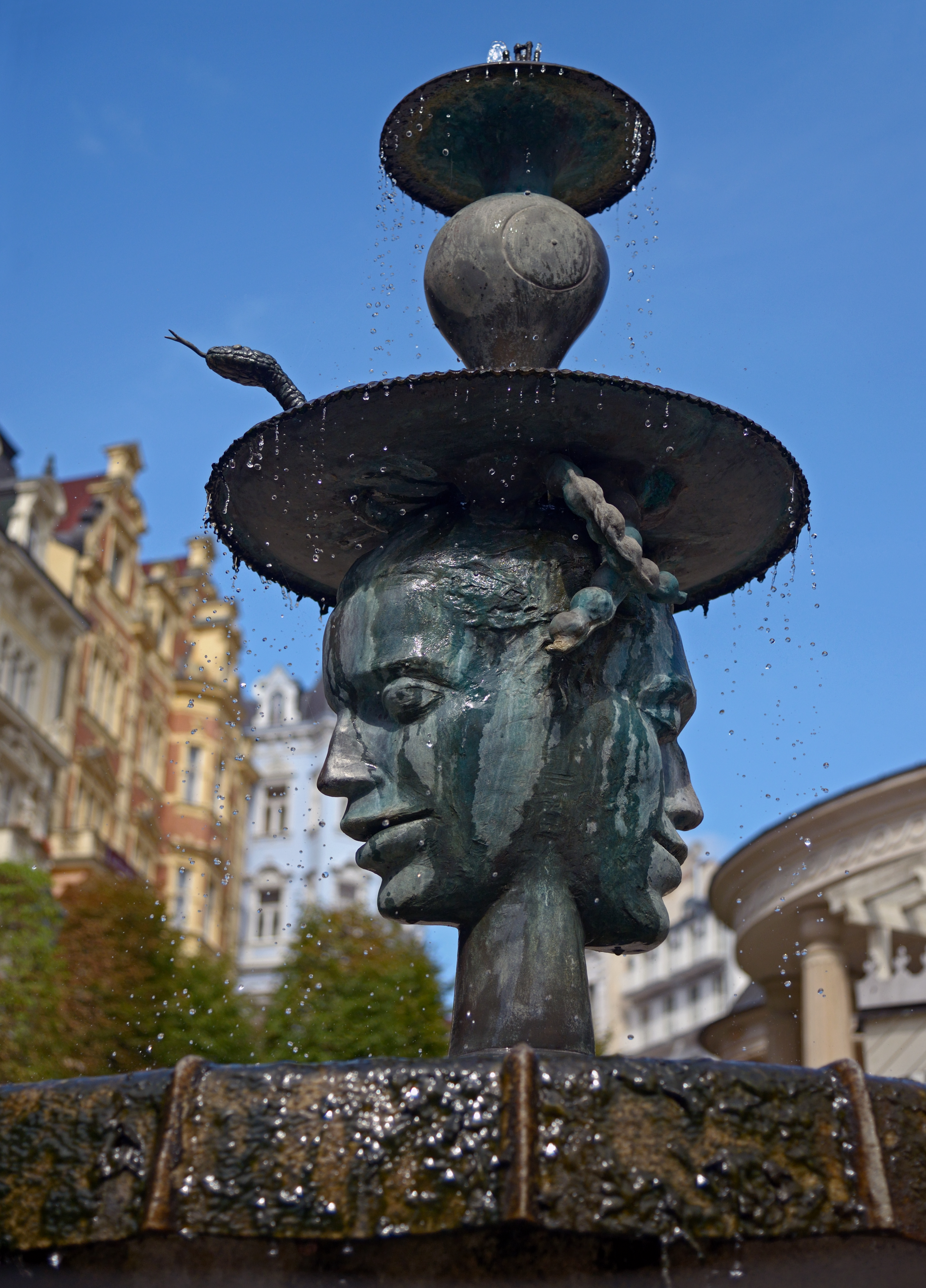 Fountain near the Market Colonnade. Karlovy Vary, Czech Republic